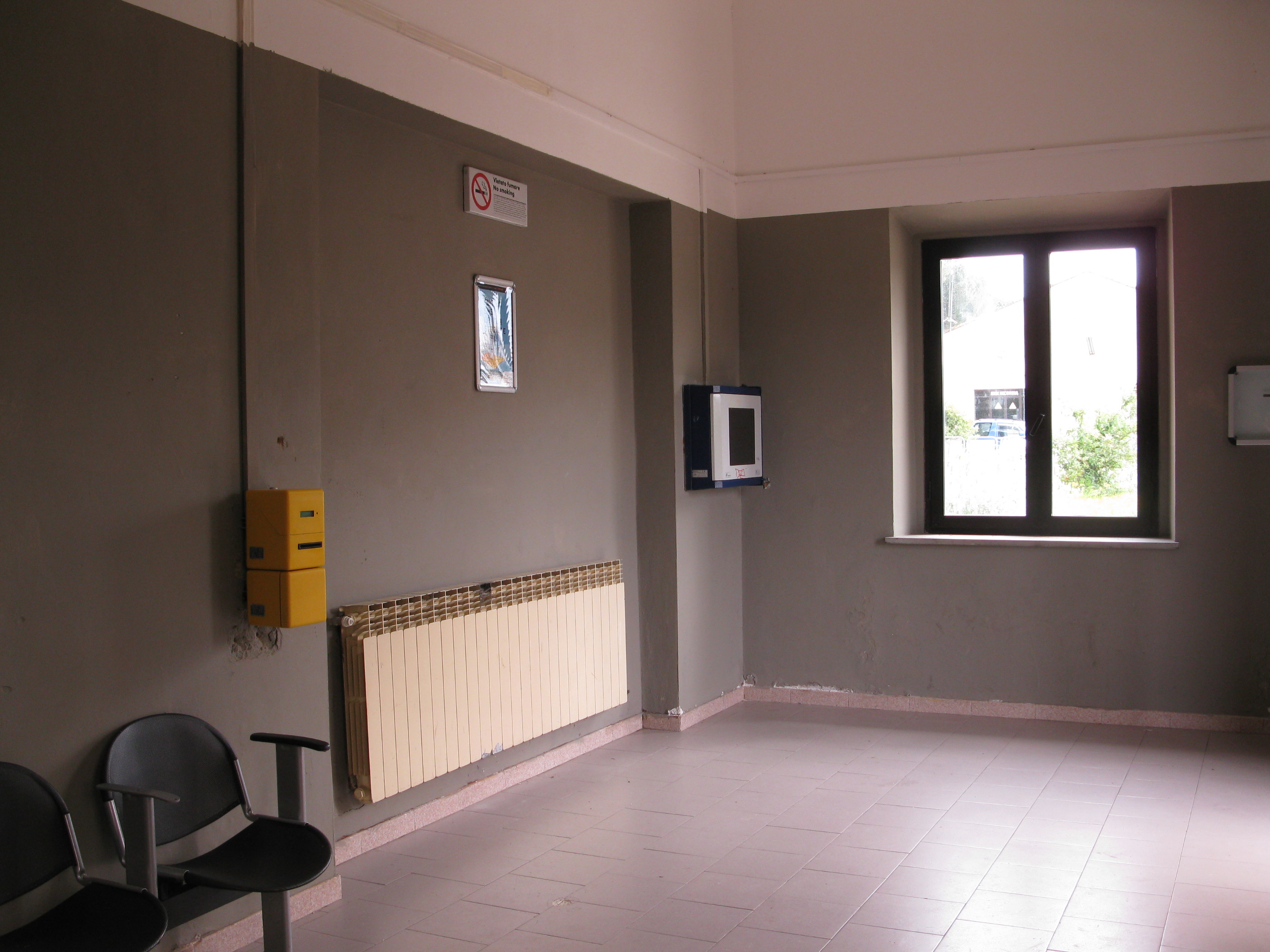 Castiglion del Lago railway station, Waiting room